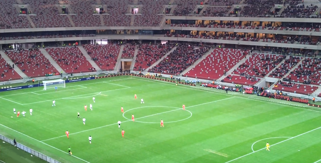 National Stadium in Warsaw interior